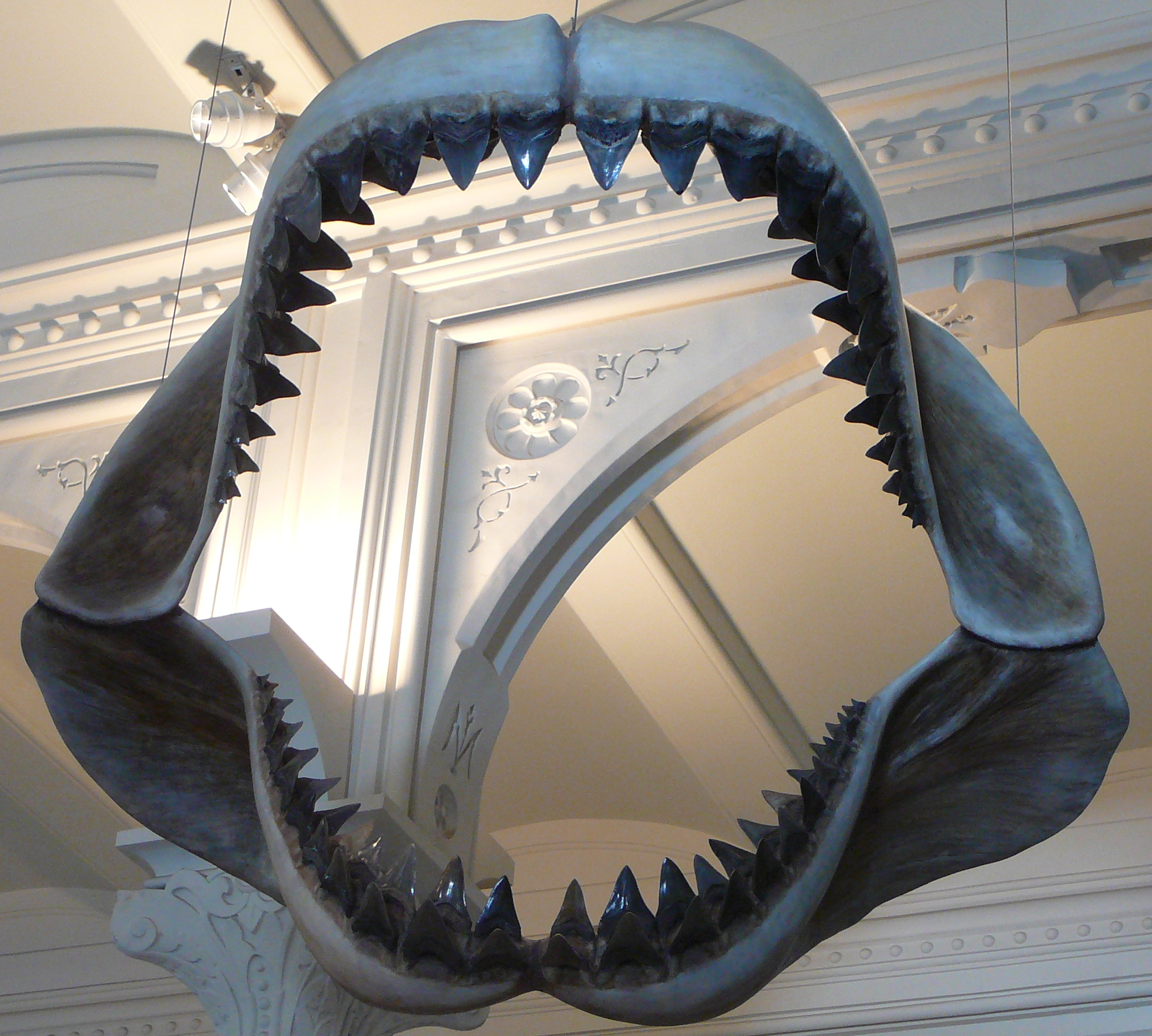 Model of megalodon shark jaws at the American Museum of Natural History, in New York.